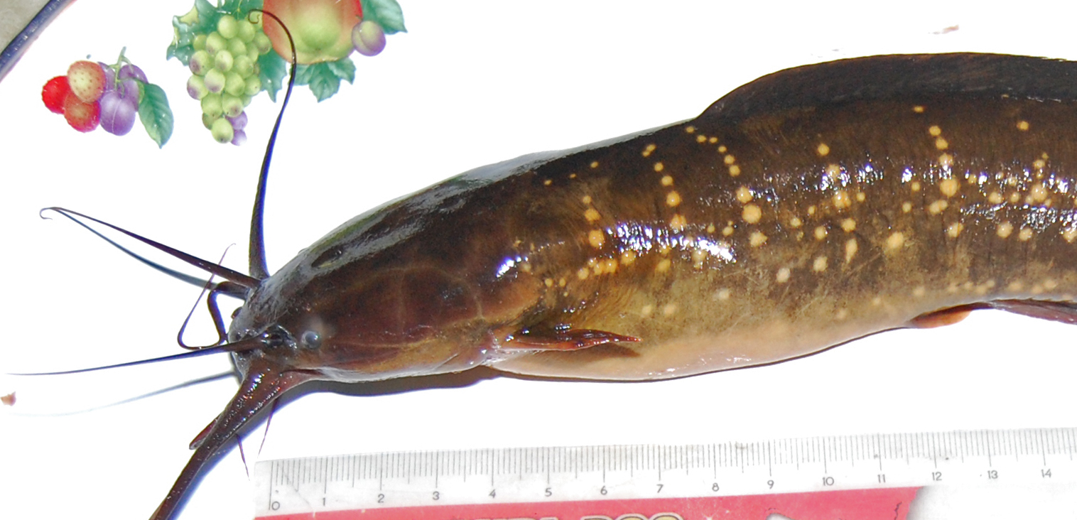 Clarias nieuhofii from Mentaya Hulu, Central Kalimantan, Indonesia. Front part of the body.